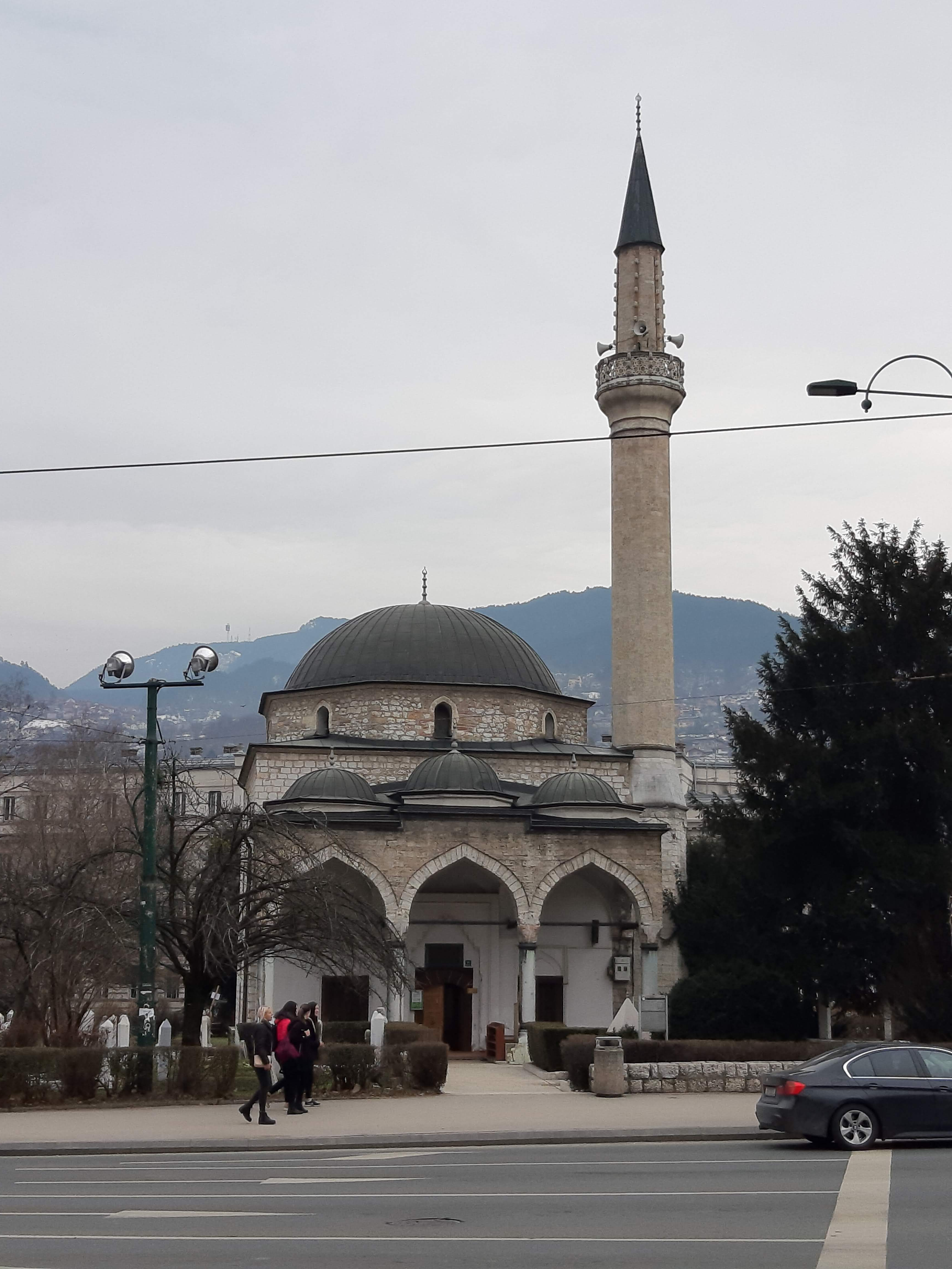 Alipasha Mosque in Sarajevo